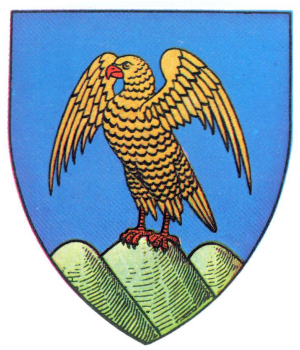 Interwar coat of arms of Argeș County, Kingdom of Romania.